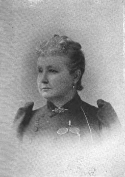 Corresta Thisba Canfield Knapp